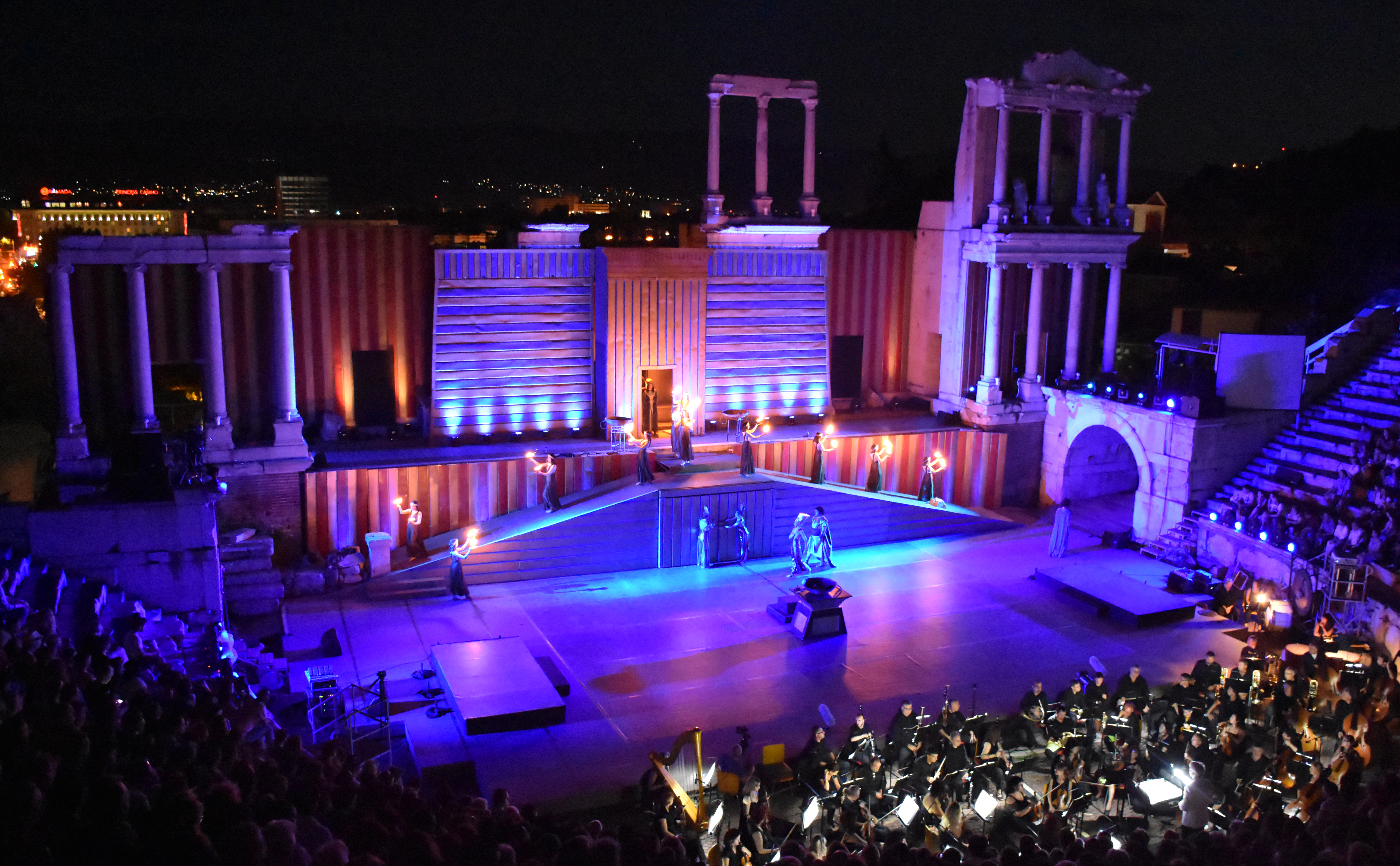 “Aida” during Opera Open at the scene of Plovdiv Roman theatre. 29/07/2017